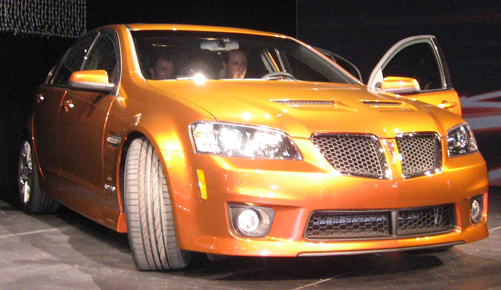 2009 Pontiac G8 photographed at the 2008 New York Auto Show.